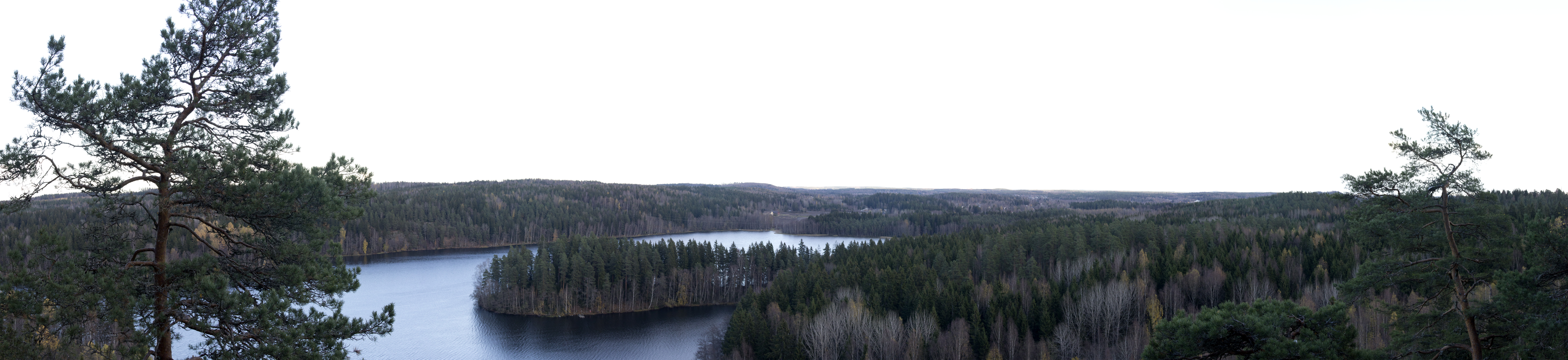 View from Aulanko.